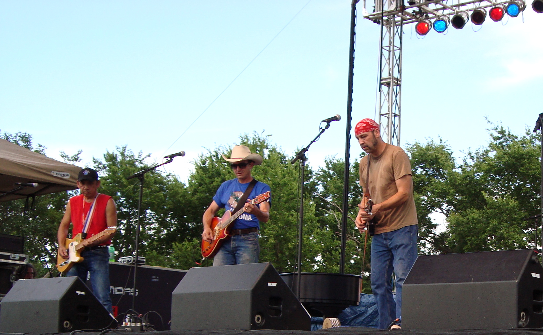 Red Dirt Rangers performing at WoodyFest.